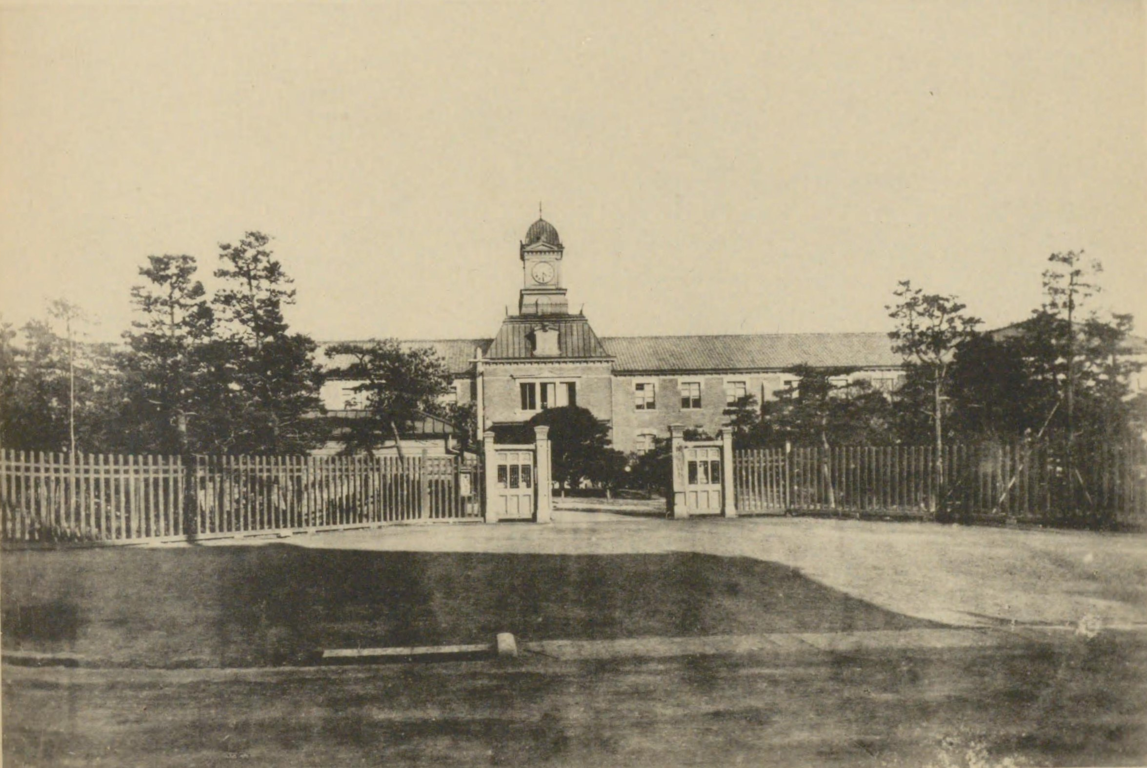 First Higher School, Japan before destroyed by Great Kanto Earthquake in 1923.